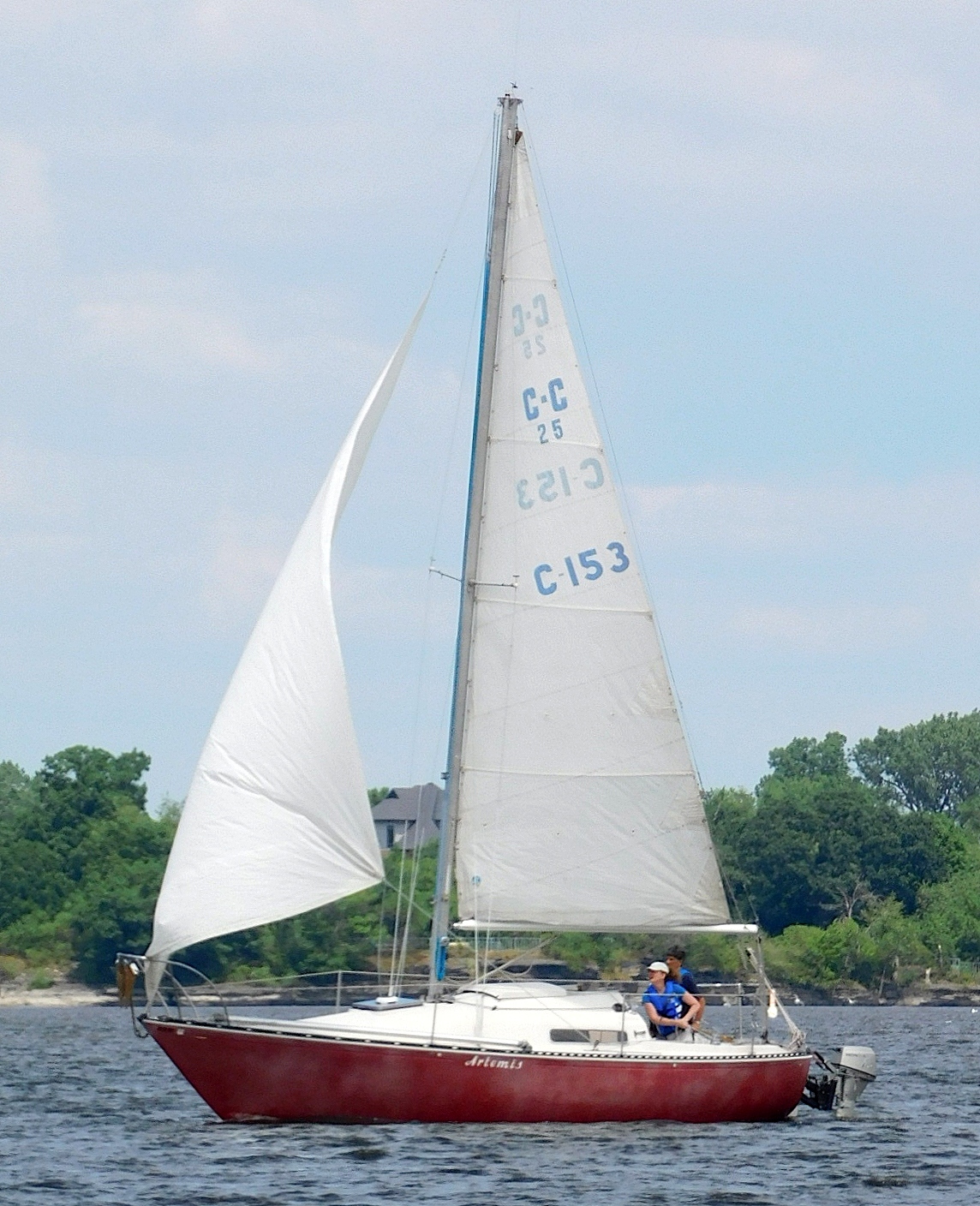 A C&C 25 Mk I sailboat named Artemis.